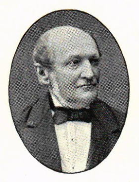 Portrait Robert Mauritz Bowallius